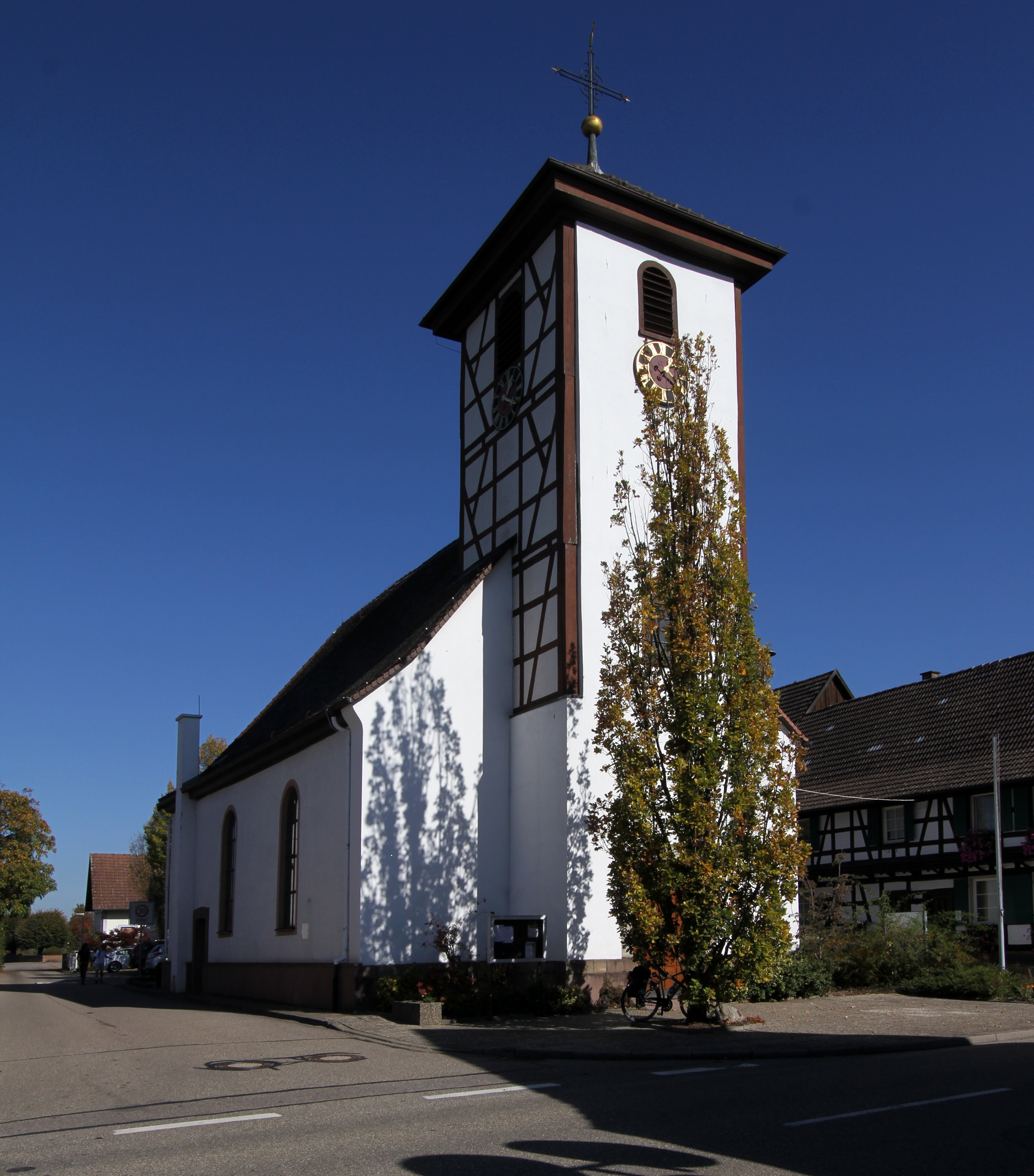 Protestant church in Rheinau-Memprechtshofen.